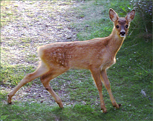 Roe deer (Capreolus capreolus), Fanø, Denmark